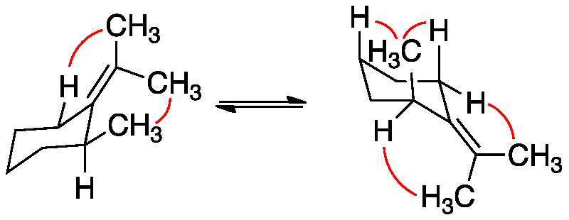 Various strain interactions shown in red. (Other hydrogens left off for simplicity).